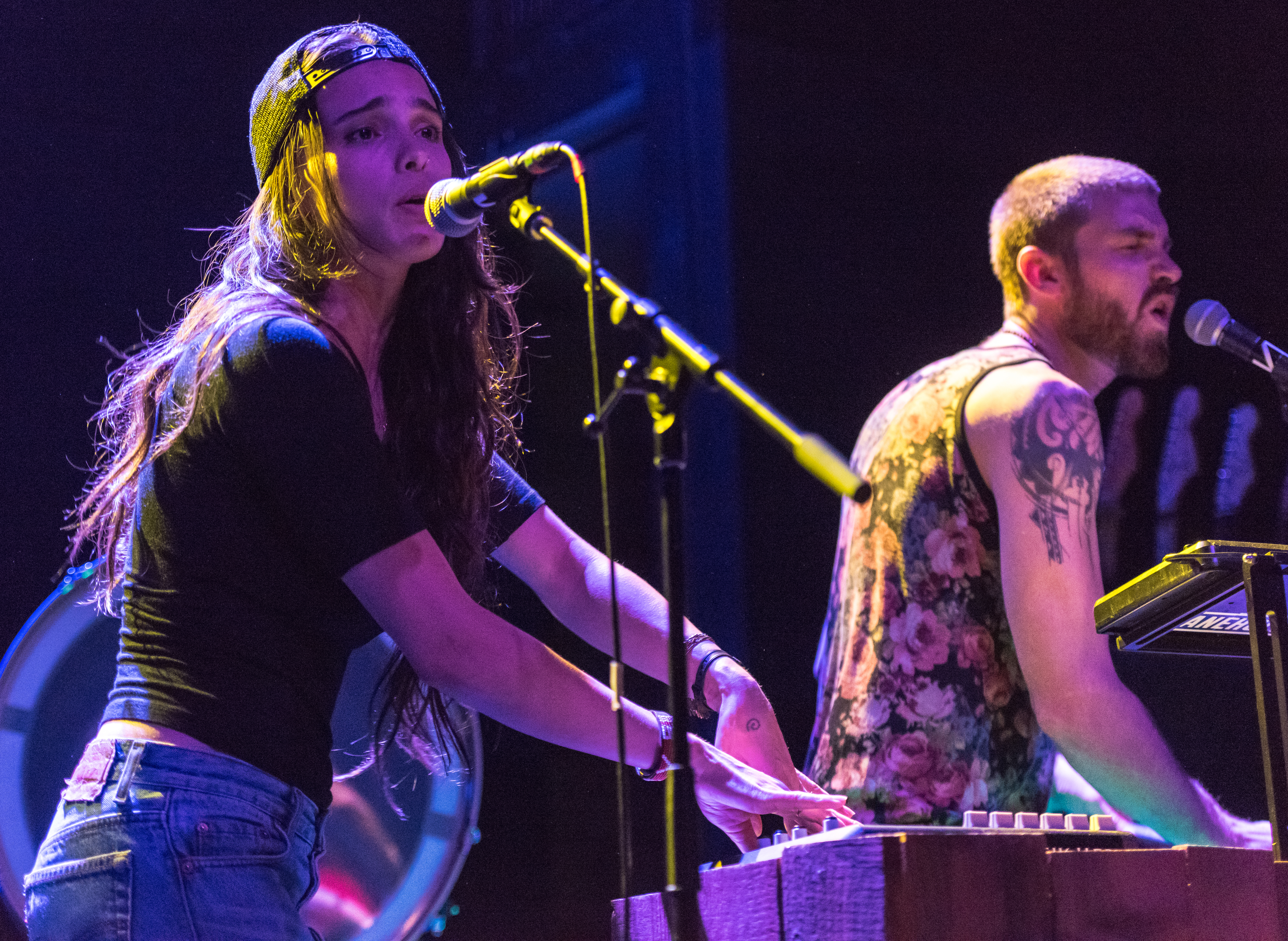 Kaneholler at Rough Trade, Williamsburg in 2015